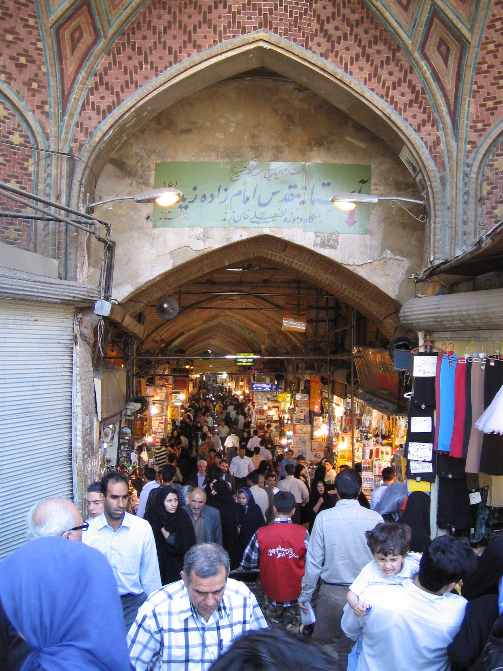 main entrance of Tehran's bazar